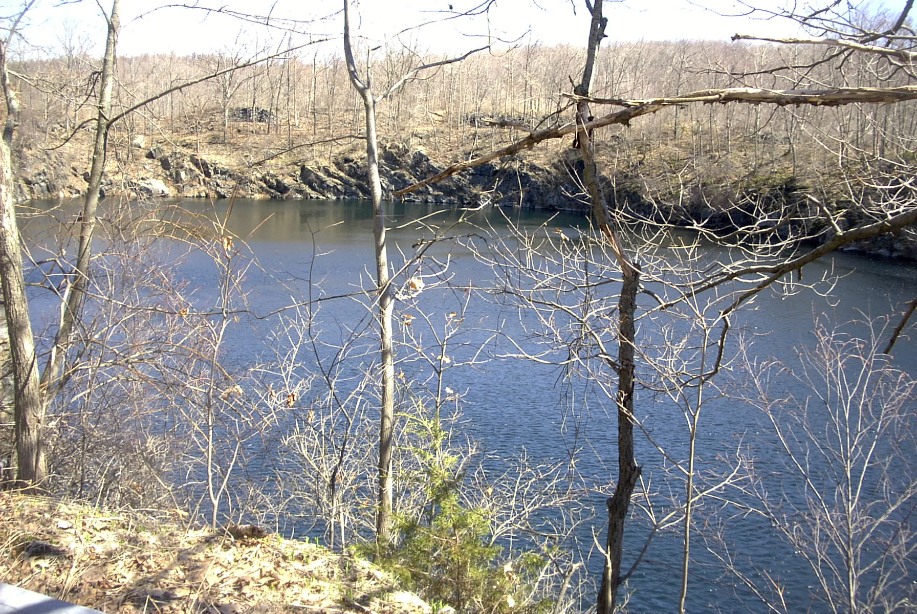 I took this photograph of the Tilly Foster Mine in Putnam County, New York.